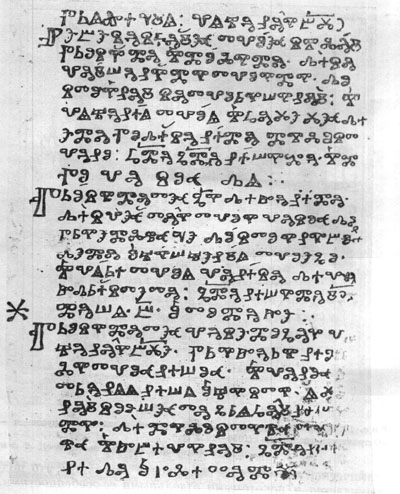 List of Kiev's manuscript written in Glagolitsa